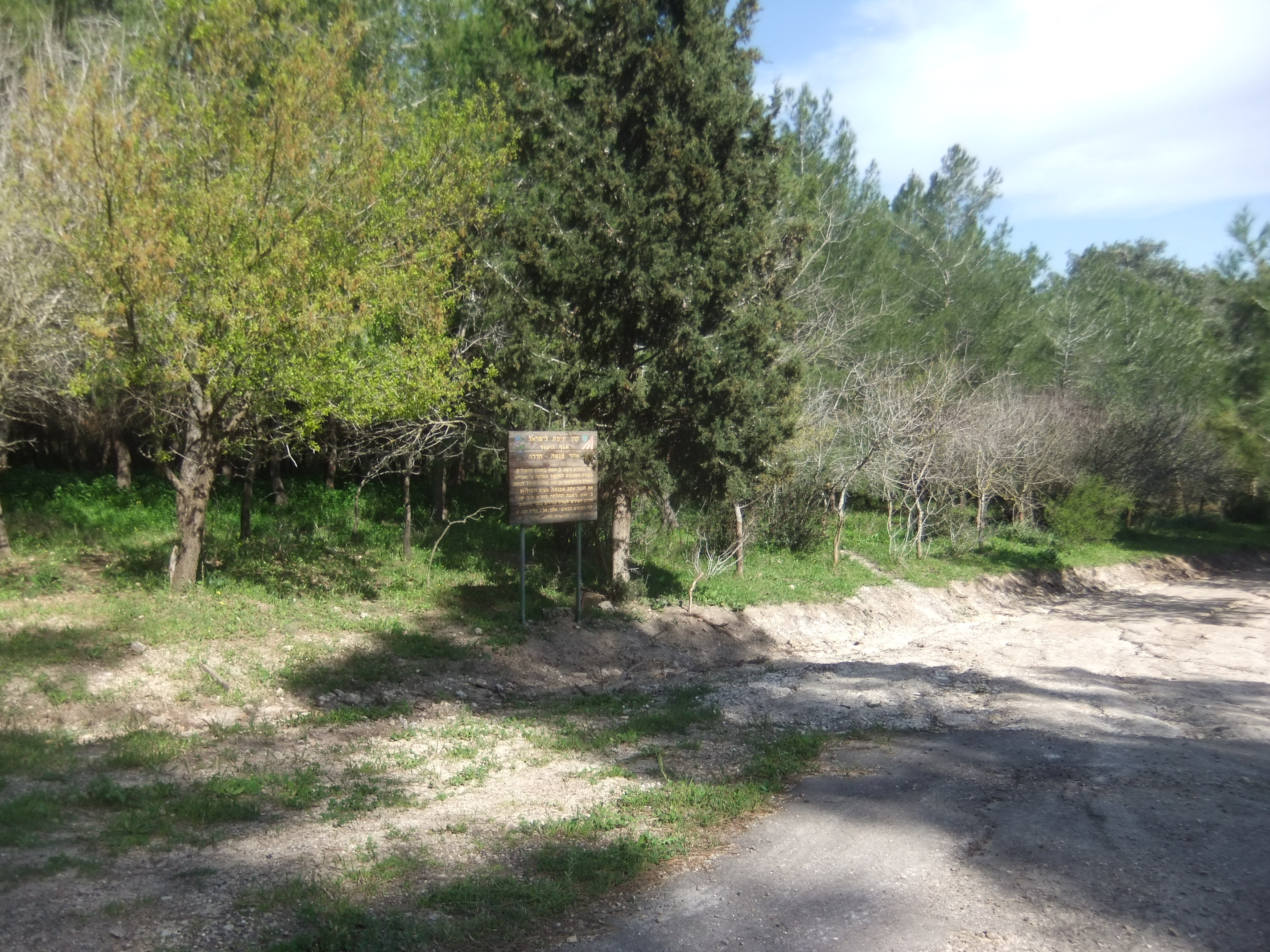 Hazorea forest